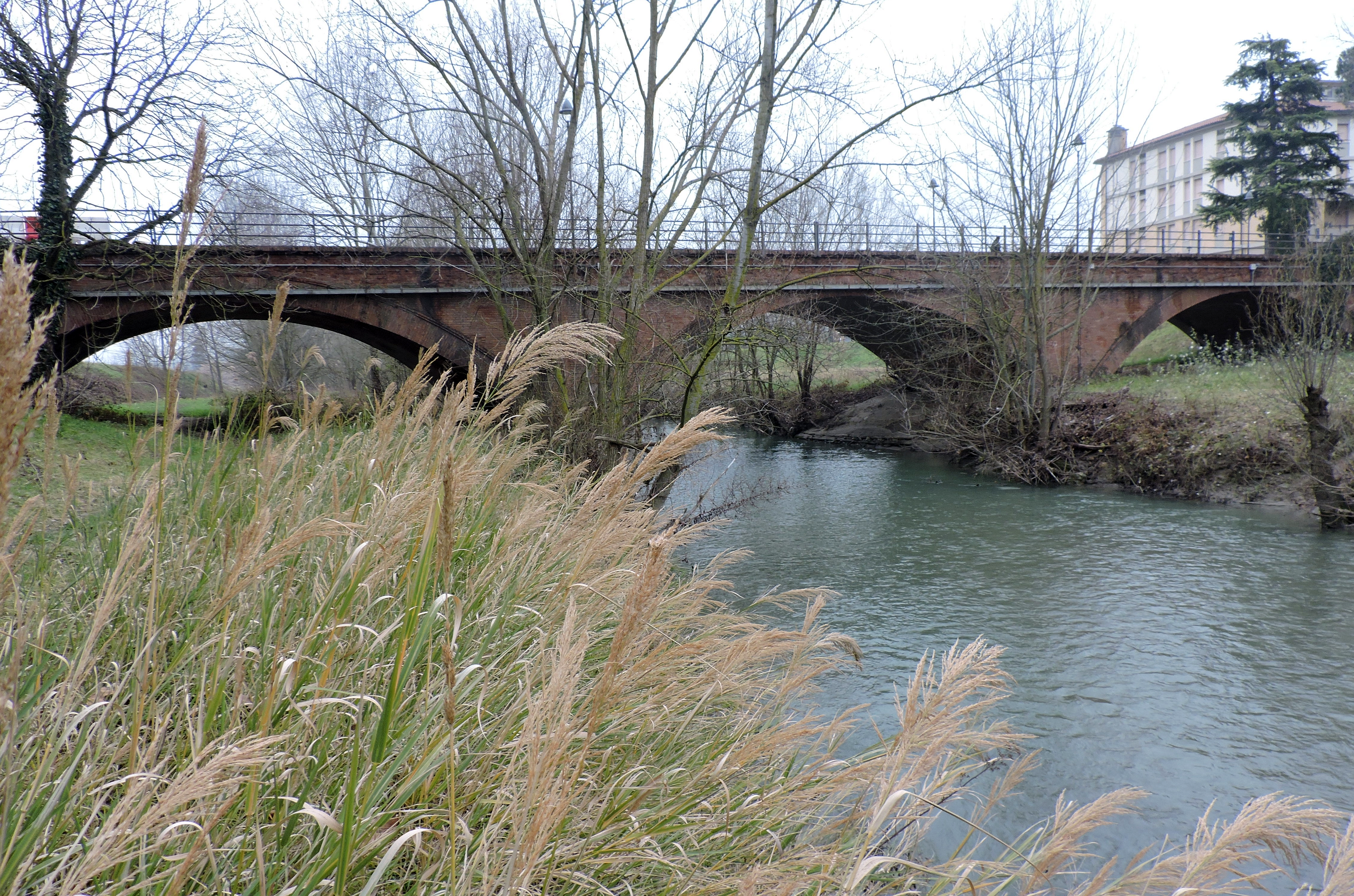 Senio river in Riolo Terme (RA, Italy)